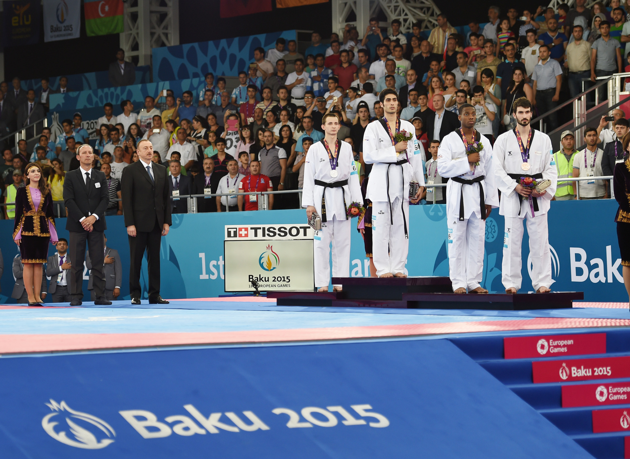 Taekwondo at the 2015 European Games